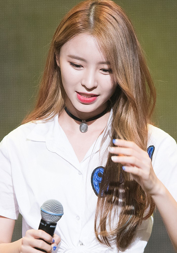 160903 CLC Elkie at the MTV Asia Music Stage